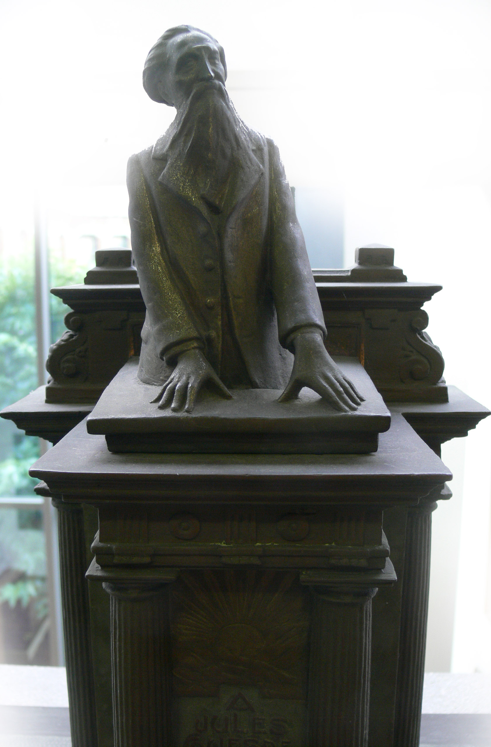 bust of Jules Guesde, french politician. By Georgette Agutte-sembat 1867-1922. Displayed in the Museum für Art and Industry in Roubaix, France